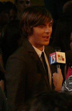 Zac Efron Arrives at Tiff '08 Premiere of Me and Orson Welles